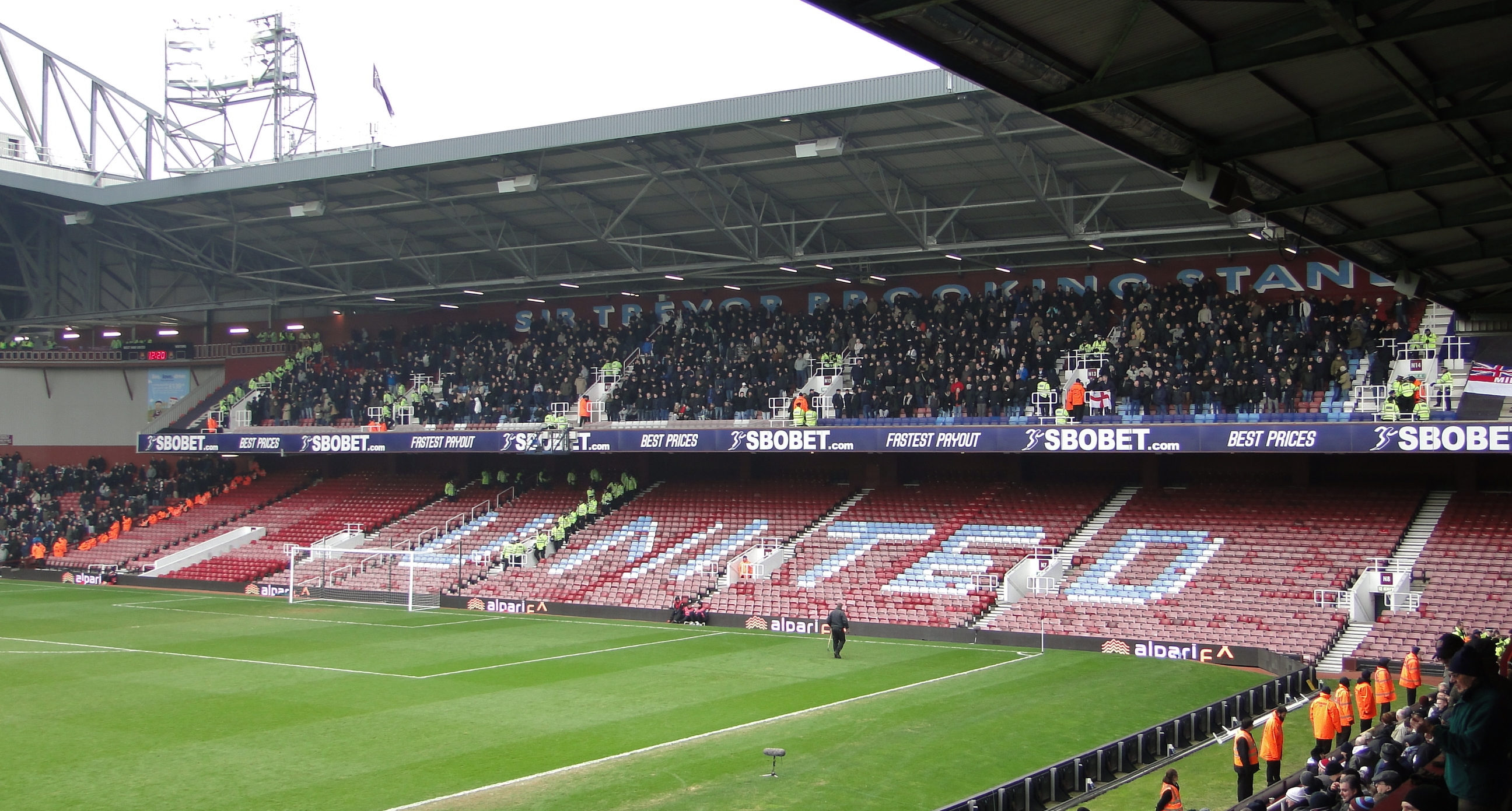 Millwall fans segregated in the upper tier of the Sir Trevor Brooking Stand at The Boleyn Ground, to prevent pitch invasion